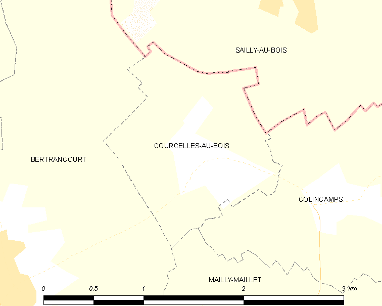 Map of French municipality Courcelles-au-Bois